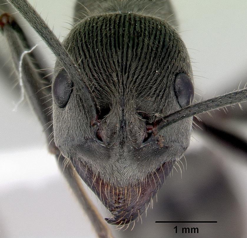 Head view of ant Diacamma australe specimen casent0172073.